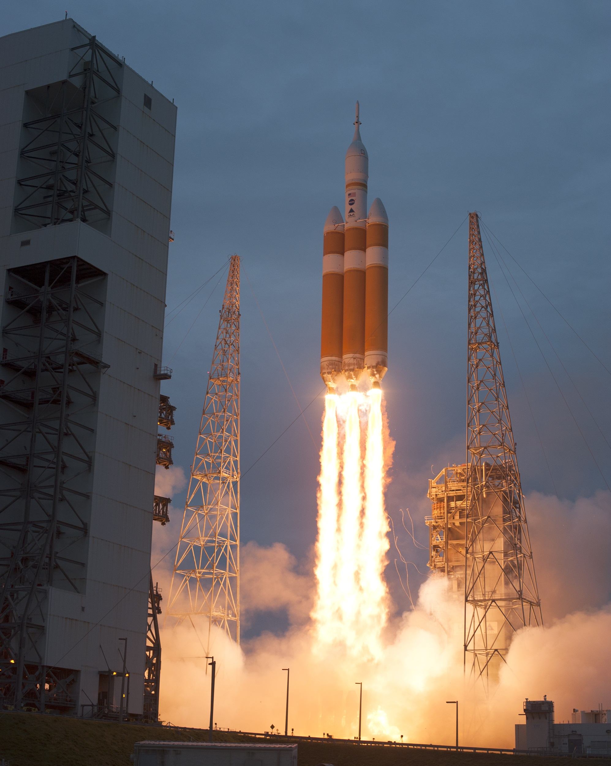 CAPE CANAVERAL, Fla. -- A Delta IV Heavy rocket lifts off from Space Launch Complex 37 at Cape Canaveral Air Force Station in Florida carrying NASA's Orion spacecraft on an unpiloted flight test to Earth orbit. Liftoff was at 7:05 a.m. EST. During the two-orbit, four-and-a-half hour mission, engineers will evaluate the systems critical to crew safety, the launch abort system, the heat shield and the parachute system.